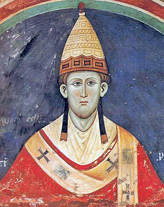 Pope Innocent III wearing a Y-shaped pallium.